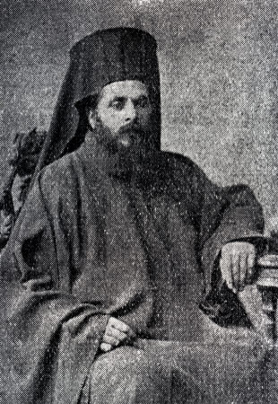 Parthenios of Sozopolis